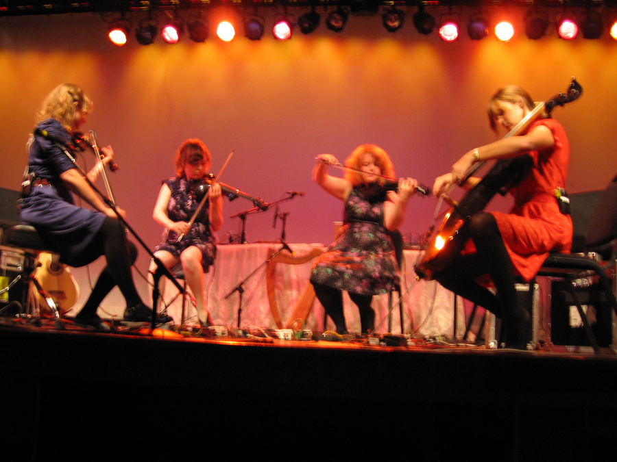 i took this photo of amiina at the world cafe in PA.